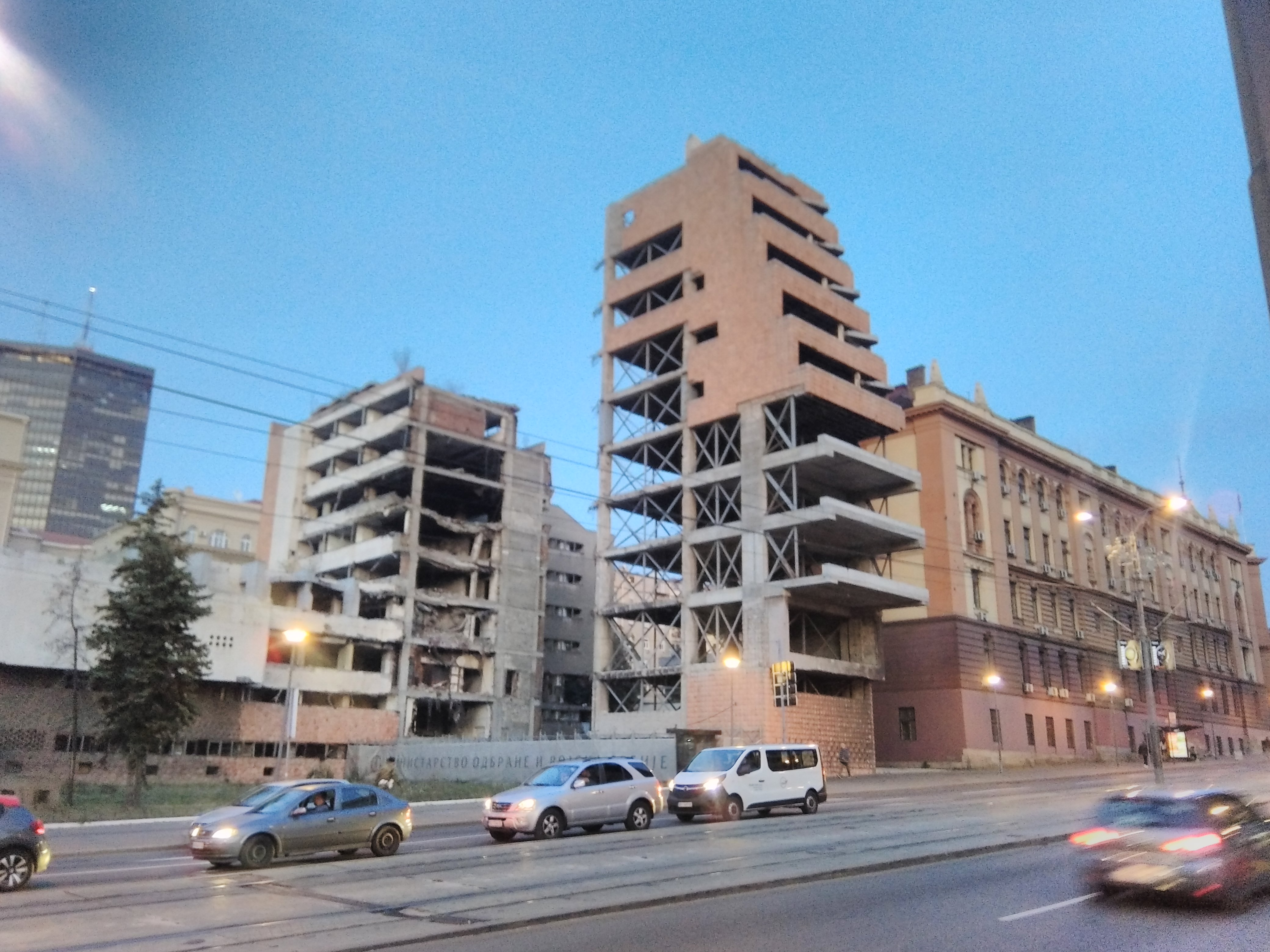 Former Ministry of Defense/Military HQ in Belgrade, Serbia